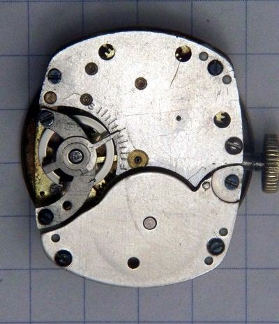 Ingersoll model 20 watch movement, US time